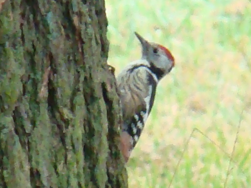 Photo of the Middle Spotted Woodpecker (Dendrocopos medius) in Vilnius Vingis park, Lithuania.